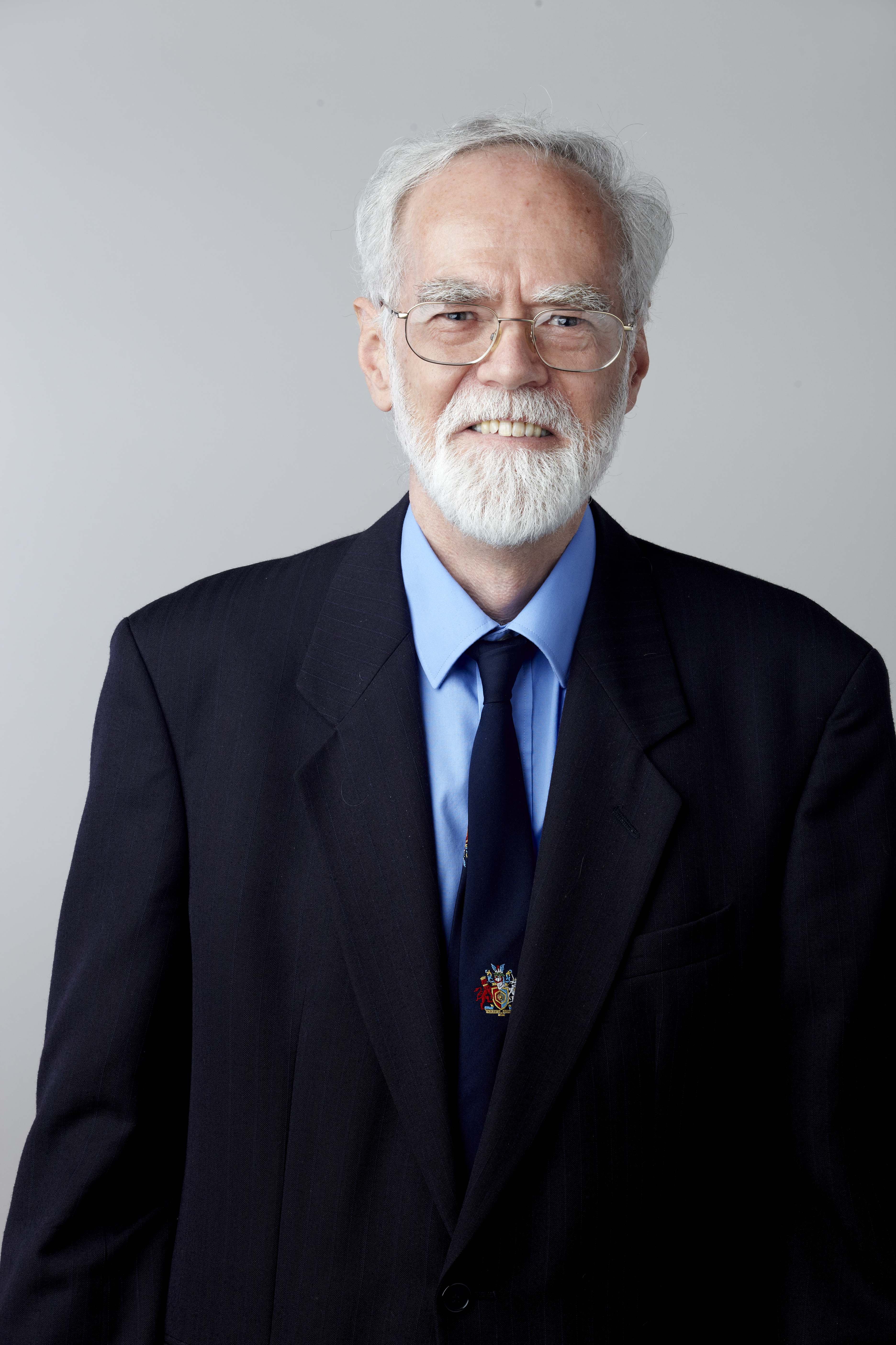 Professor Gareth Morris FRS, Royal Society Fellow elected 2014 Attribution: The Royal Society